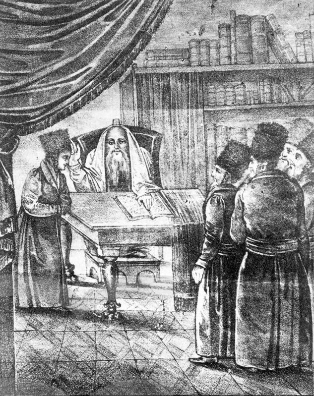 Isroel Hopsztajn, Magid from Kozienice